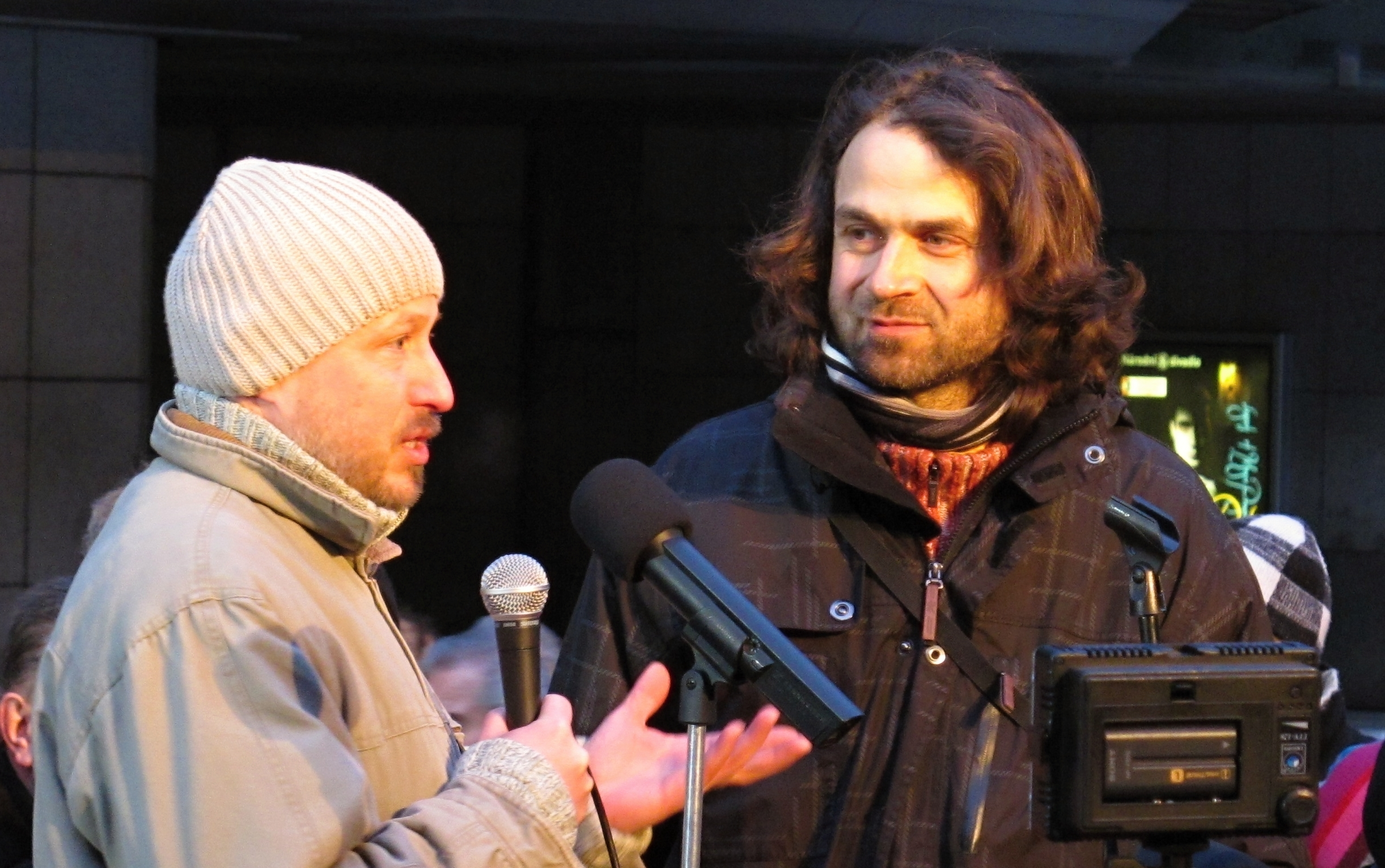 Heart made of candle wax to go on display in memory of Václav Havel. National Theatre plaza in Prague, Czech Republic